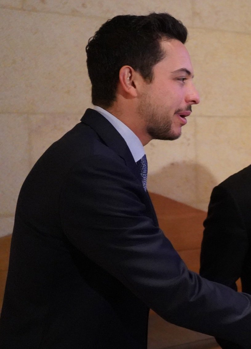 Yesterday, our bipartisan delegation met with King Abdullah II of Jordan & Crown Prince Al Hussein bin Abdullah II to discuss the US-Jordan strategic partnership, regional stability, counterterrorism, security cooperation, Middle East peace, economic development & other shared challenges.